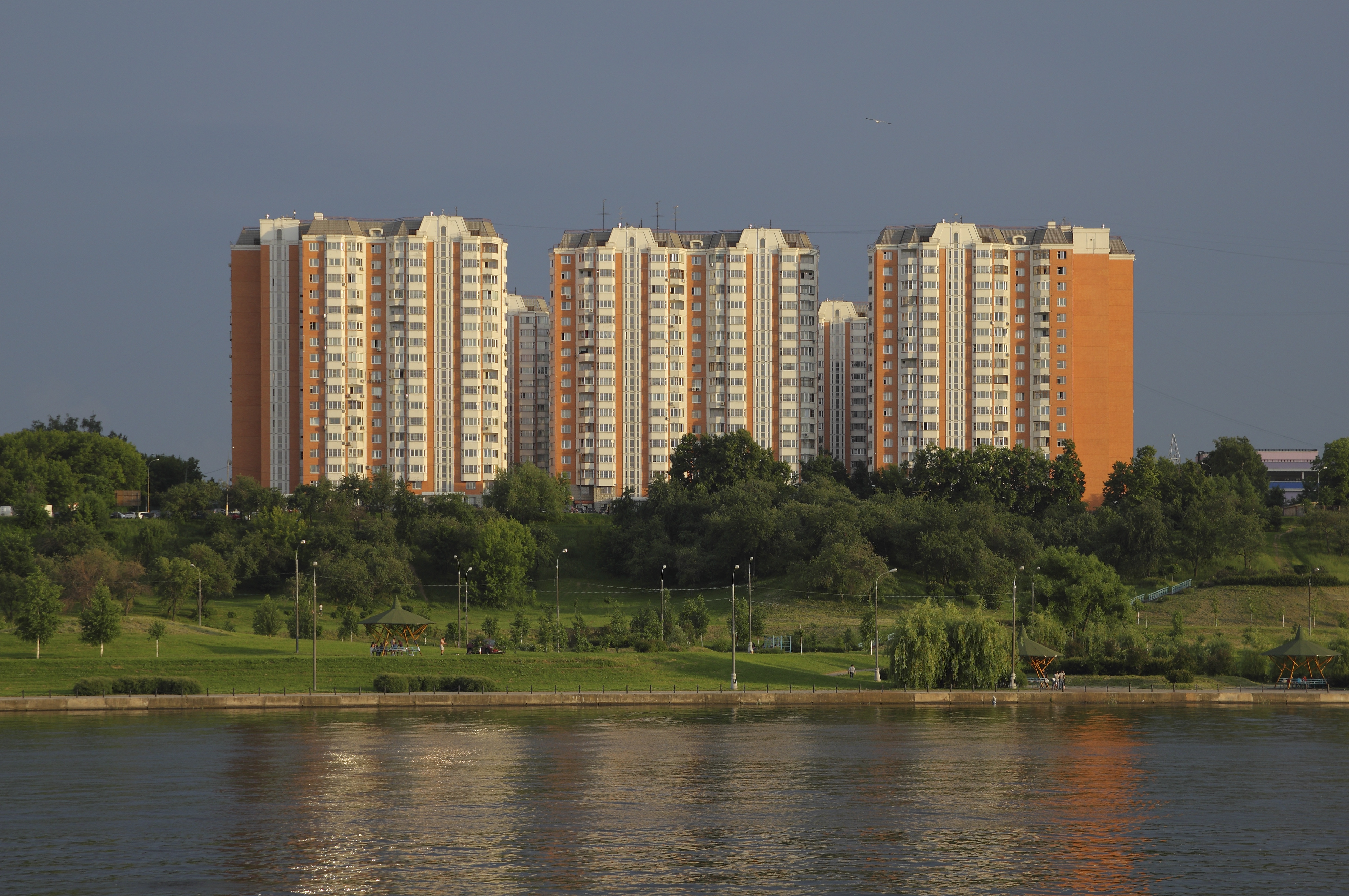 Apartment houses in Moskvorechye-Saburovo, Moscow